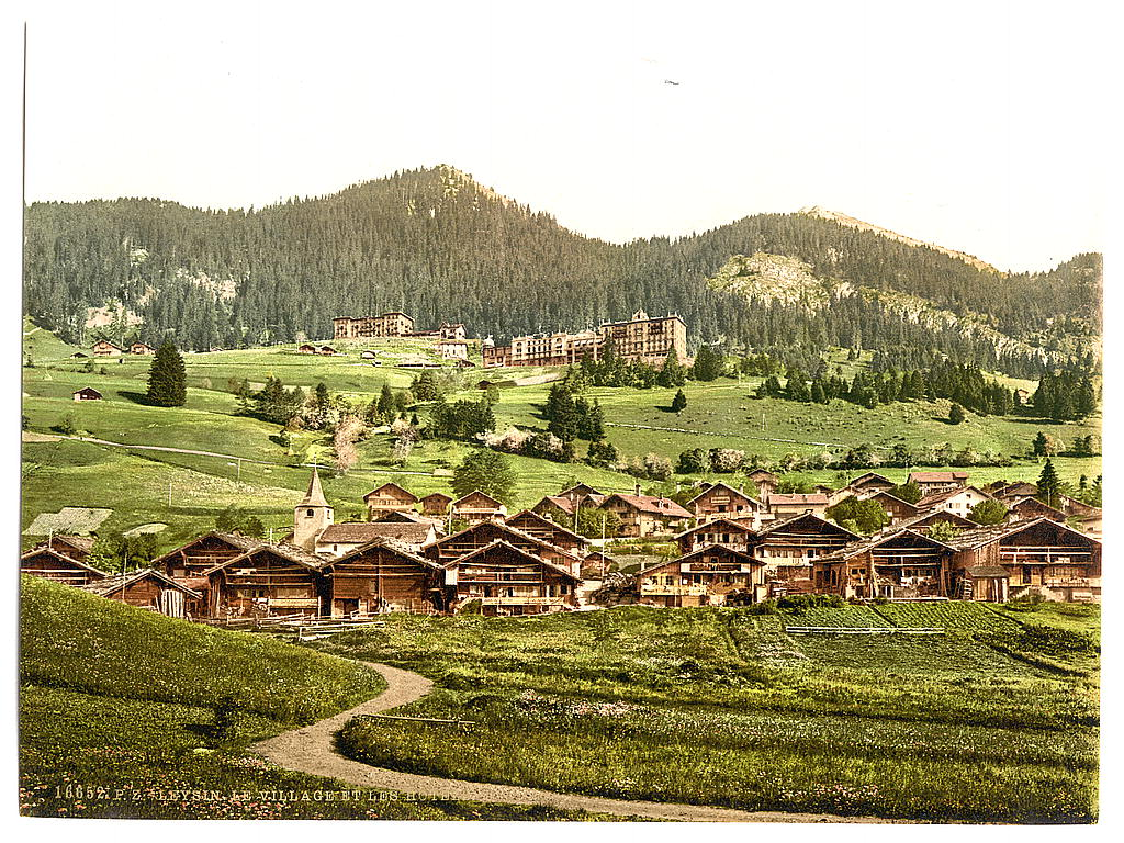 Leysin general view of village and hotels, Canton of Vaud, Switzerland.